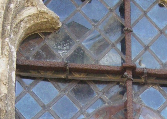 England, Ightham Mote, diaper-shaped iridescent glass in armorial window, possibly from time of Henry VIII, 1500s